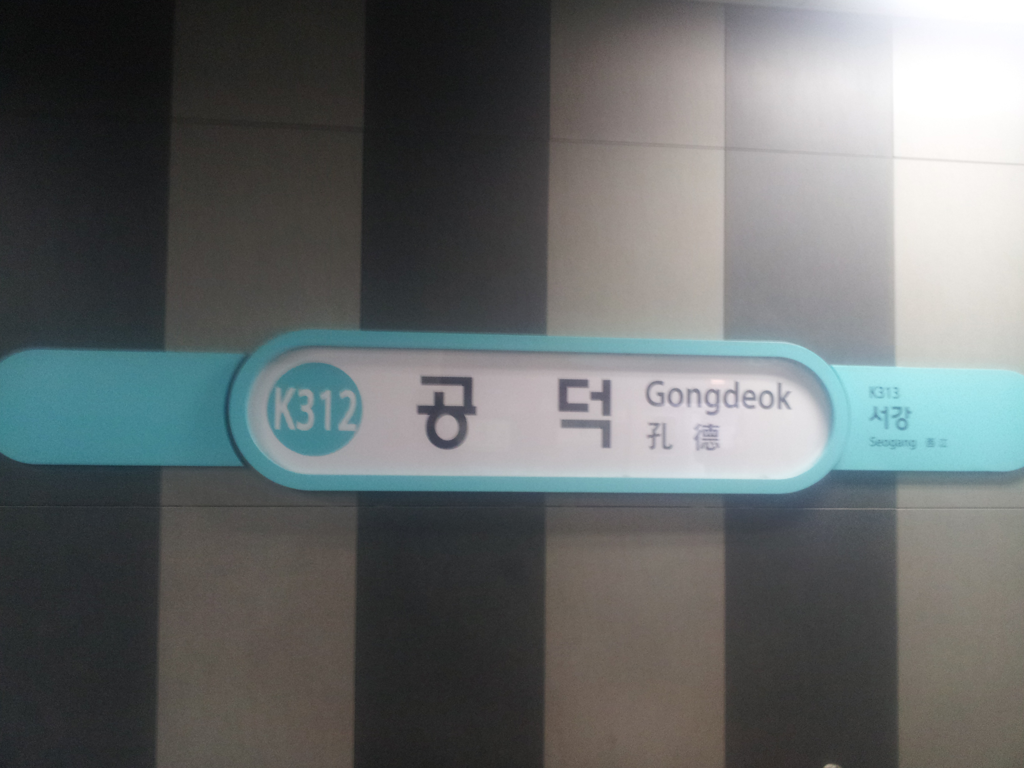 Gongdeok Station, Kyeongui line.